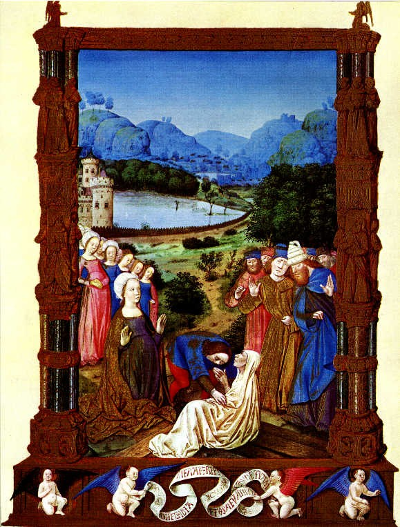 Illumination from Tres Rich Heures, Duc du Berry. Painted by Jean Colombe c.1410